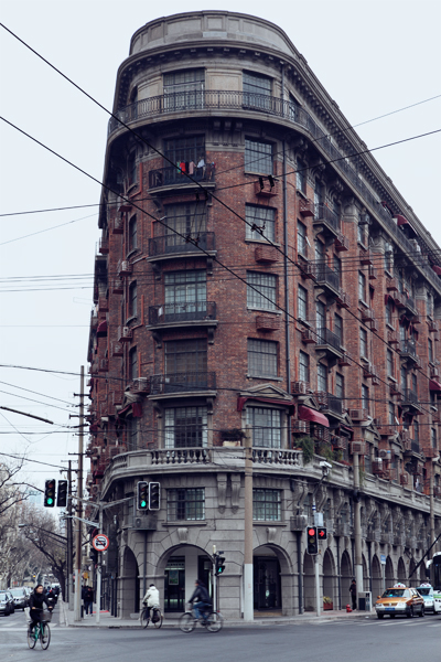 Normandie Apartment in Shanghai